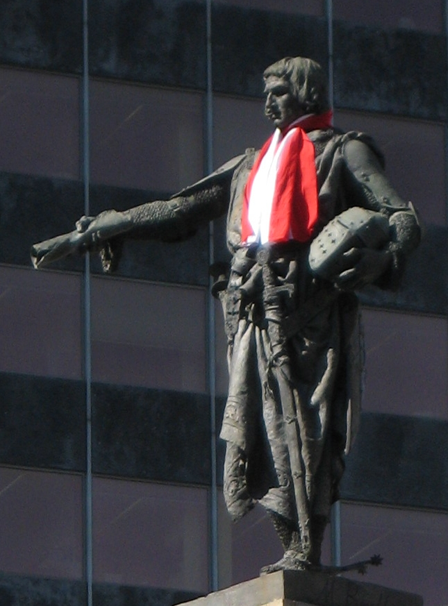 Monument to Diego Lopez V de Haro in Bilbao, with a red and white scarf on (colours of the city's flag and of Athletic Club de Bilbao)